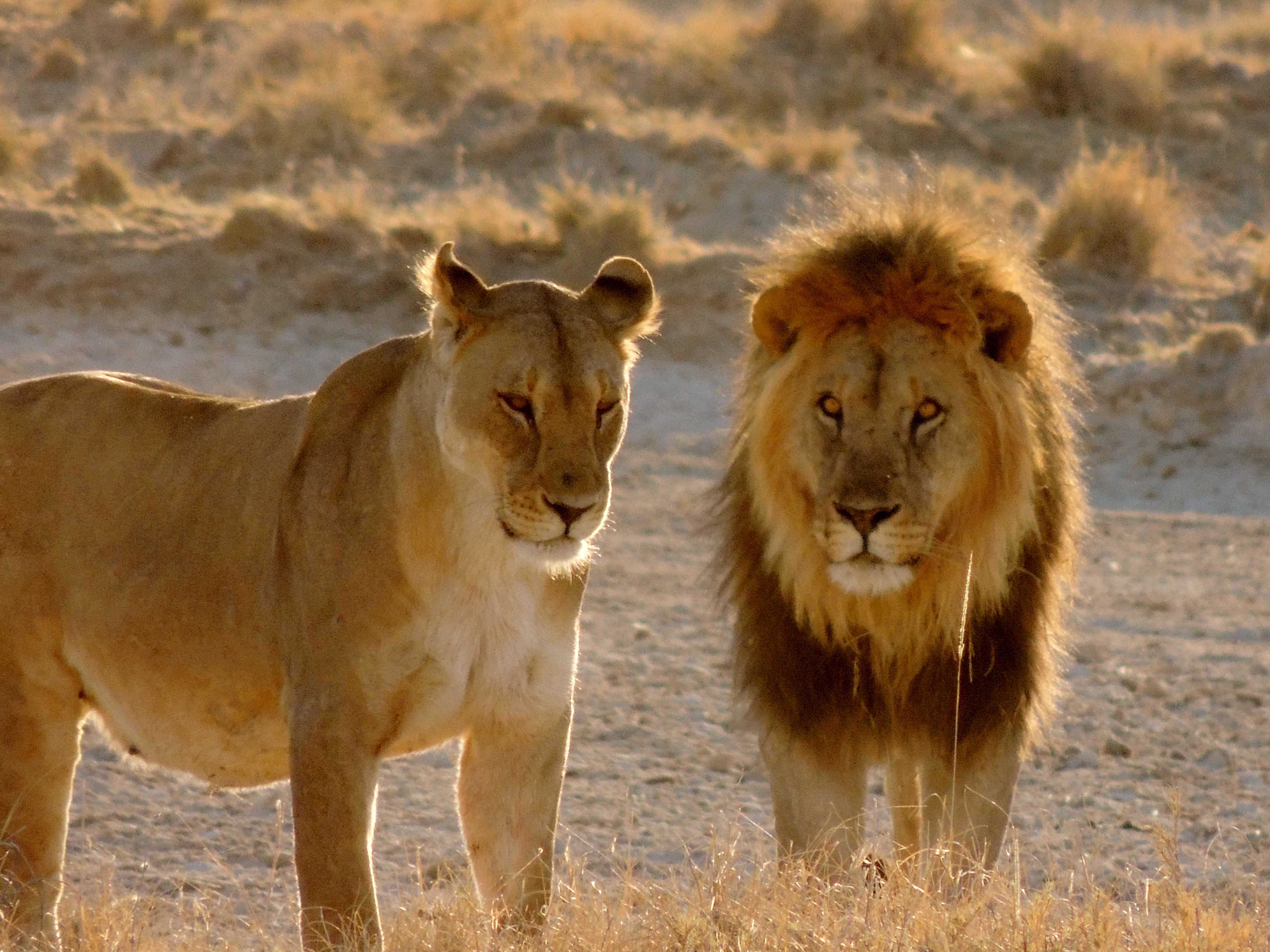 Panthera leo 5